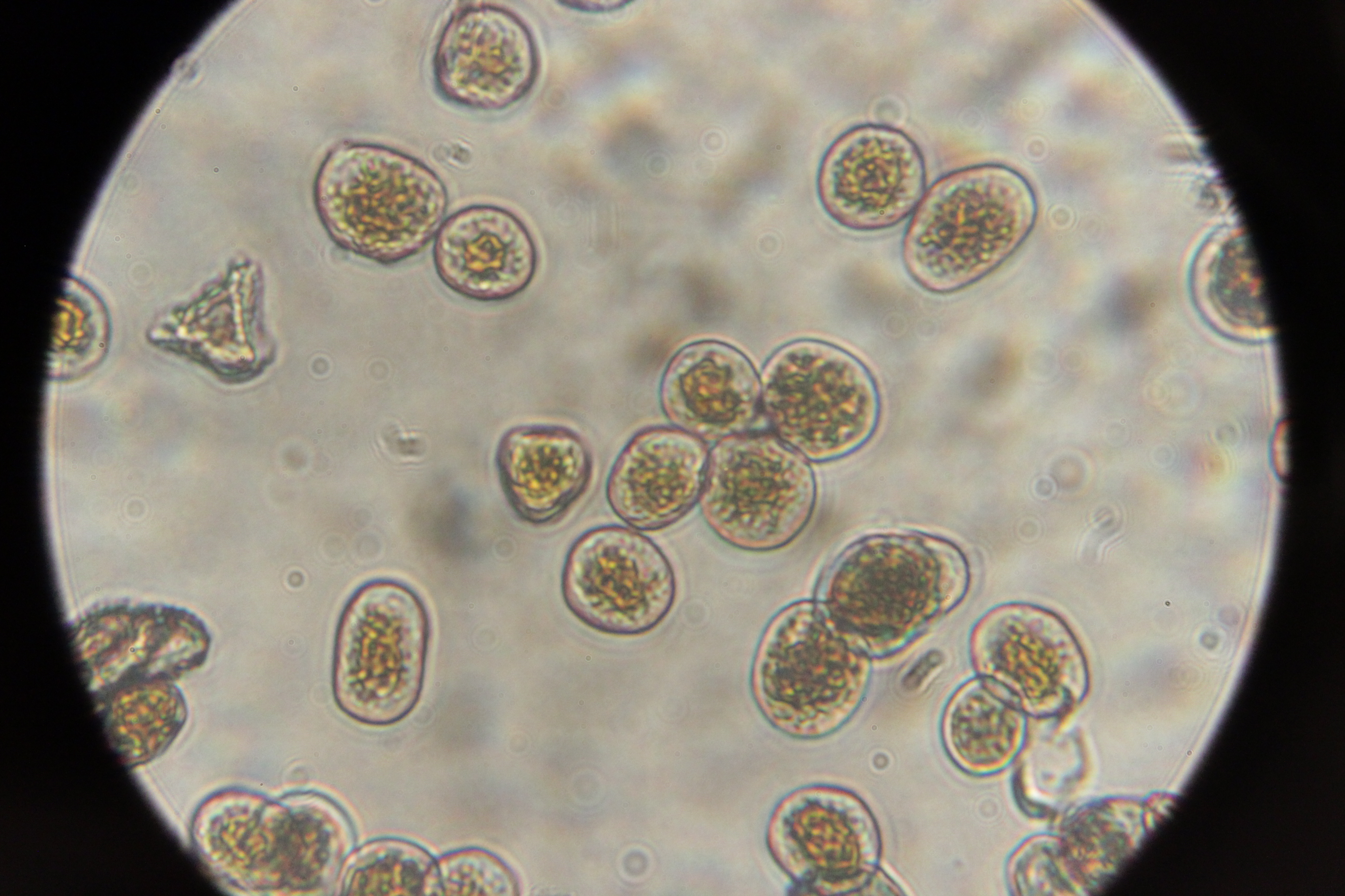 Puccinia coronata on Rhamnus cathartica